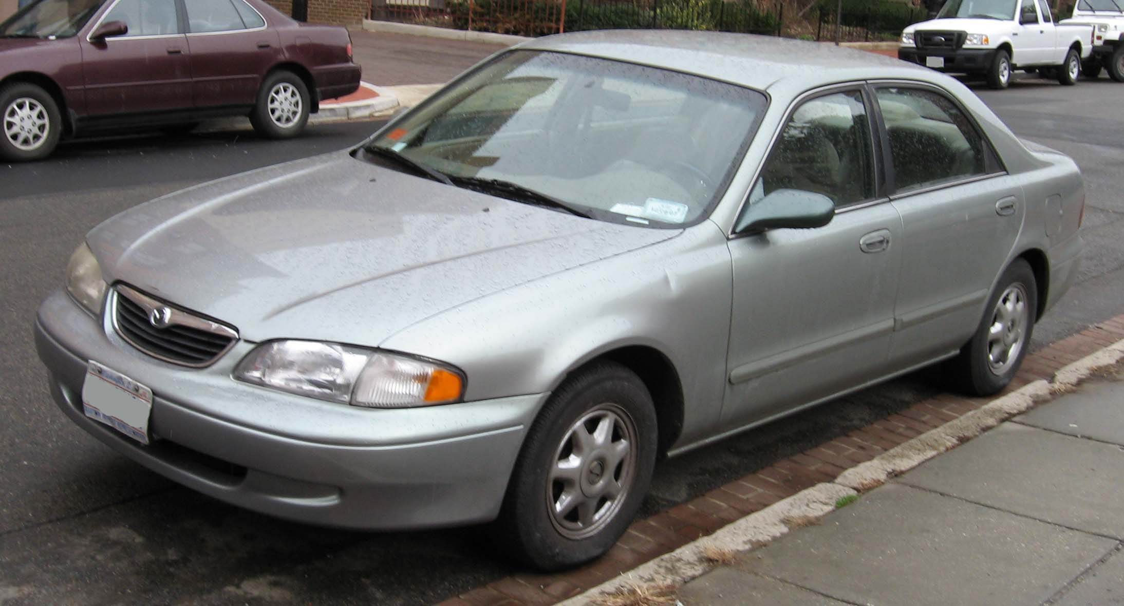 1998-2000 Mazda 626photographed in USA.